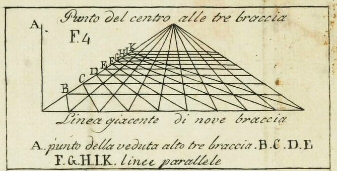 Alberti's diagram showing perspective lines leading to a vanishing point in Della Pittura